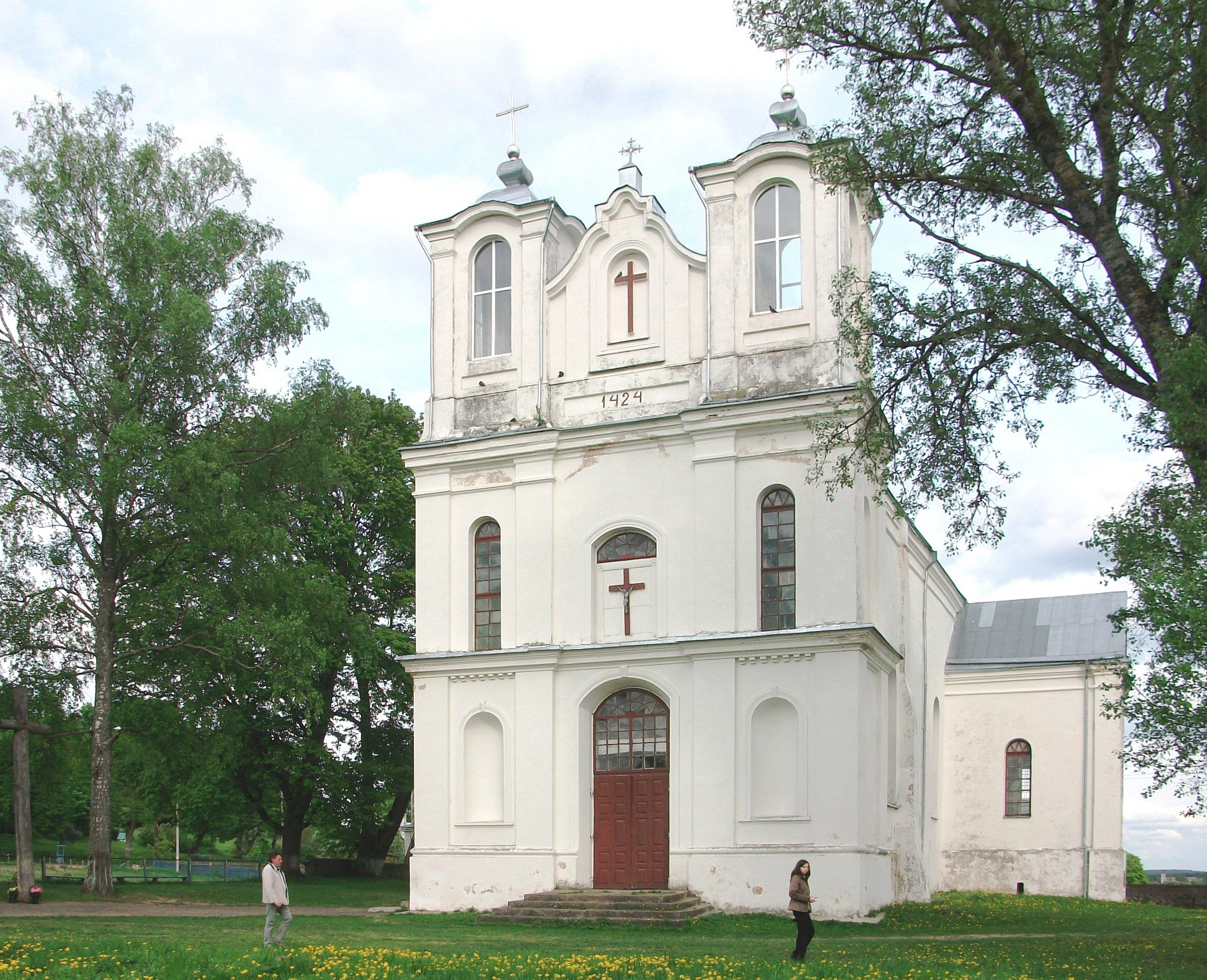 Church of Saint Mary in Vishneva village, Belarus